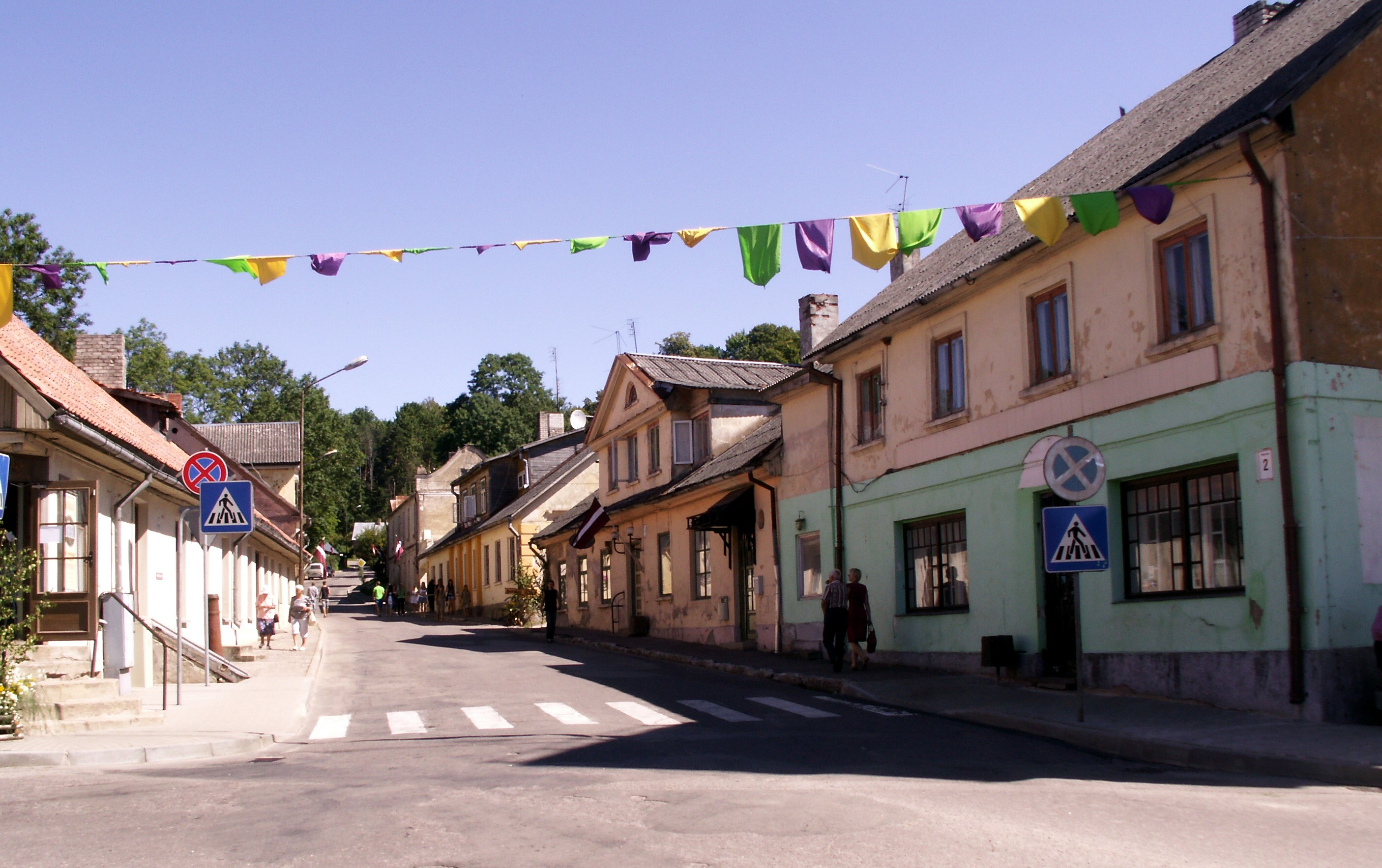 Sabile, Latvija